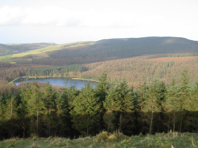 Trentabank Reservoir lies between Macclesfield, Cheshire and Buxton, Derbyshire. The dam is in Cheshire but most of the water is in Derbyshire.